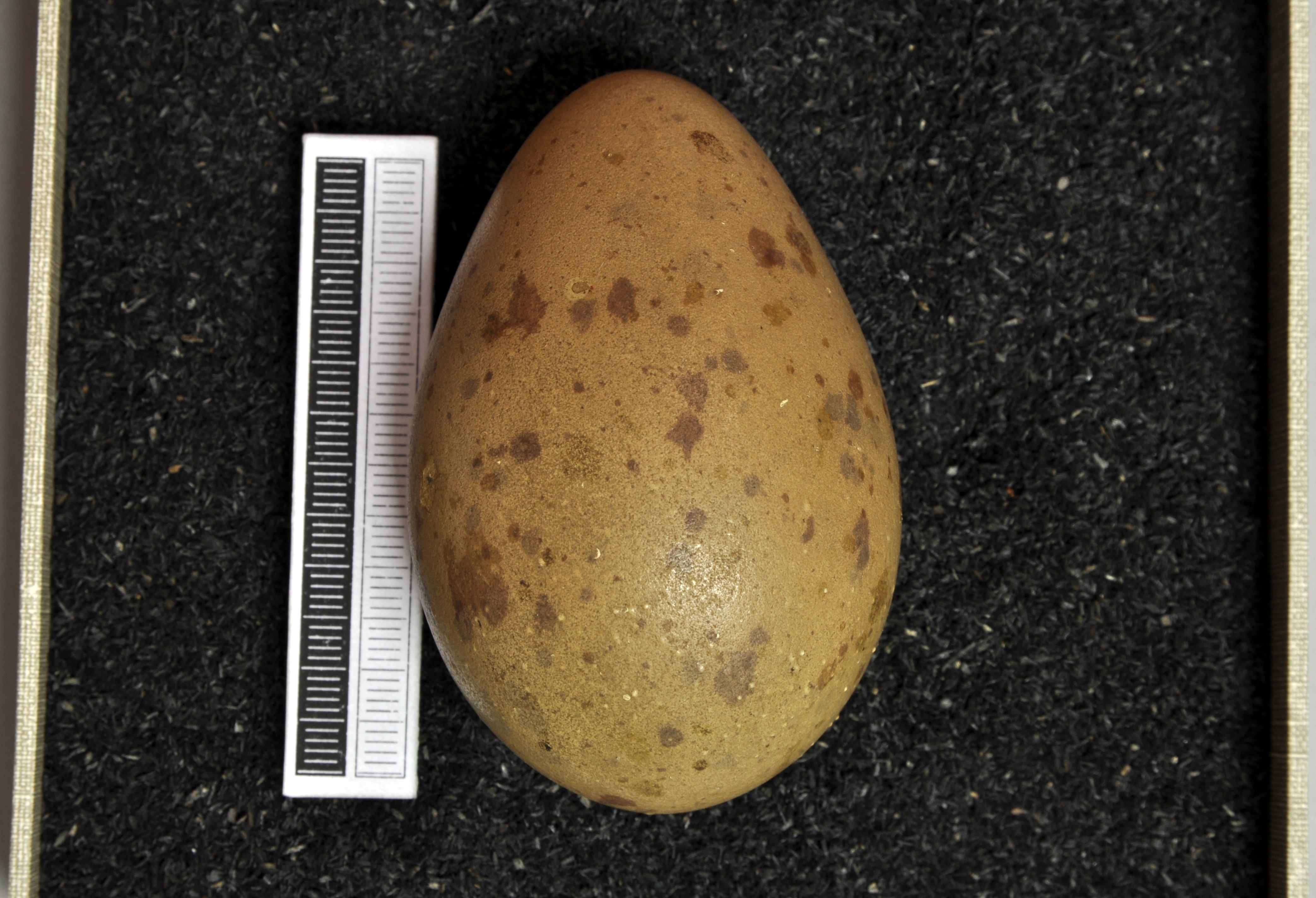 Great skua Stercorarius skua , egg, Coll. Museum Wiesbaden